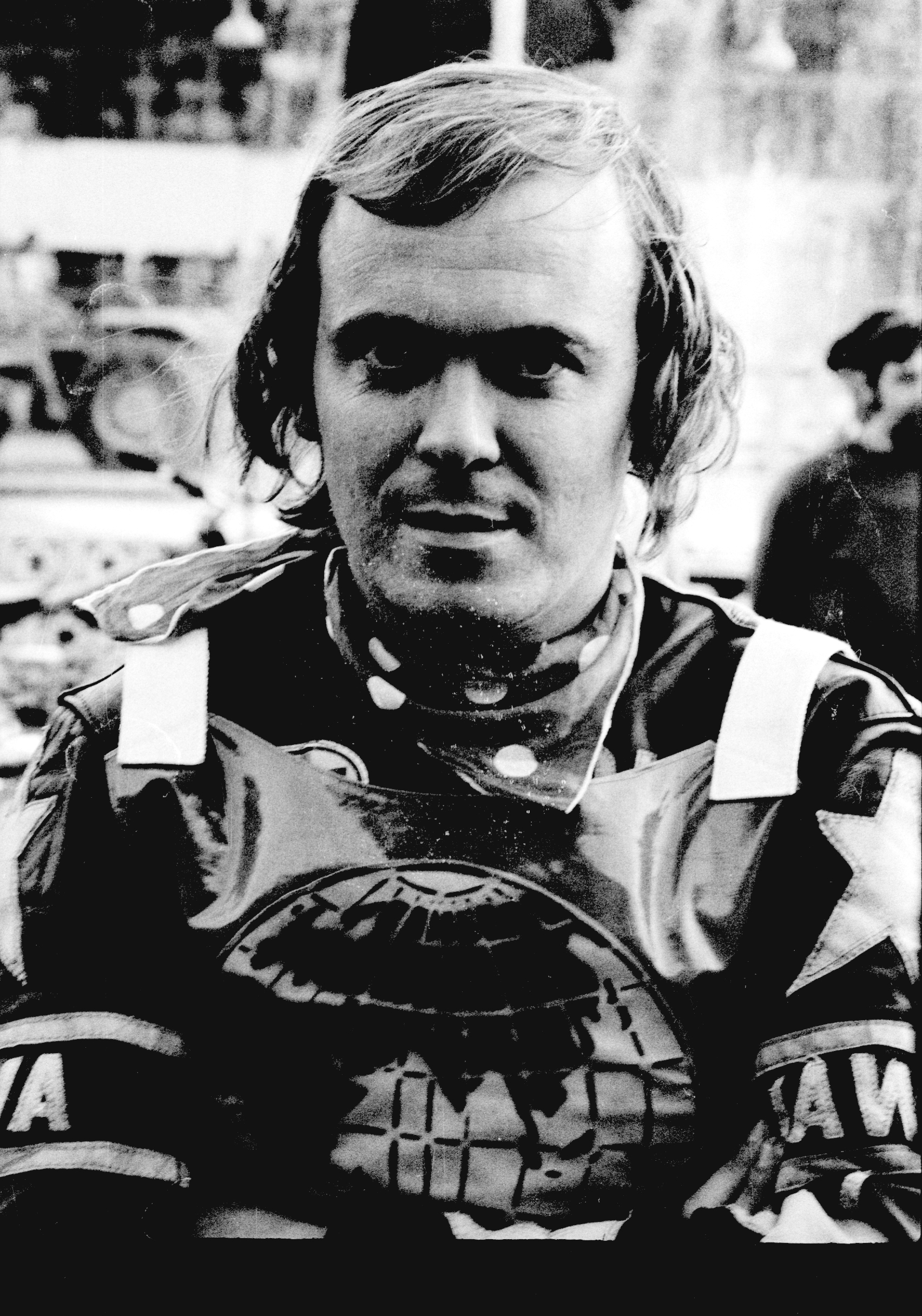 Ole Olsen, Denmark and Wolverhampton speedway rider. Promoter of Speedway Grand Prix.